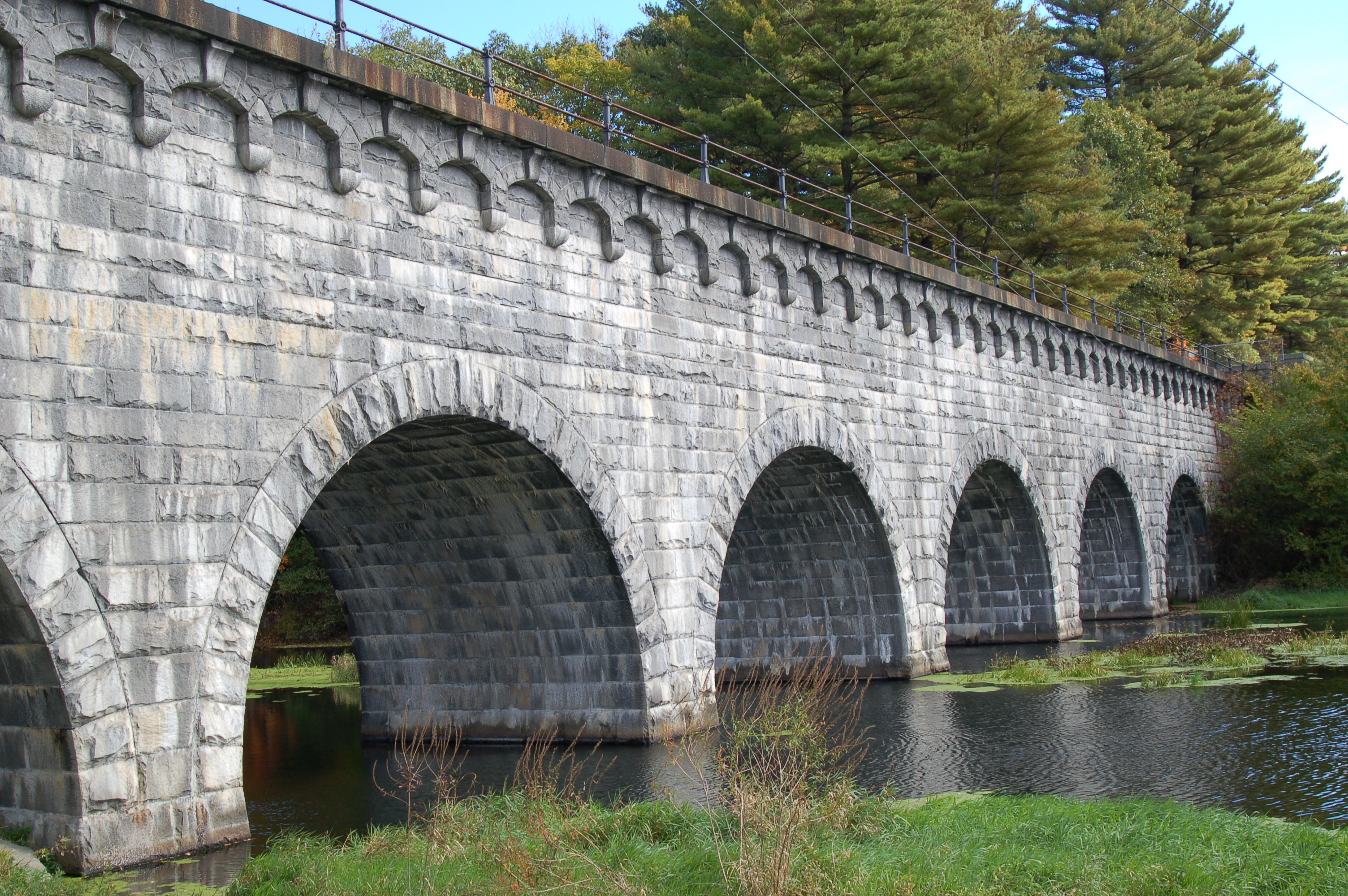 Photo taken by Author, Richard B. Johnson